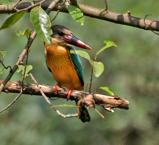 Stork-billed Kingfisher Pelargopsis capensis in Kolkata, West Bengal, India.